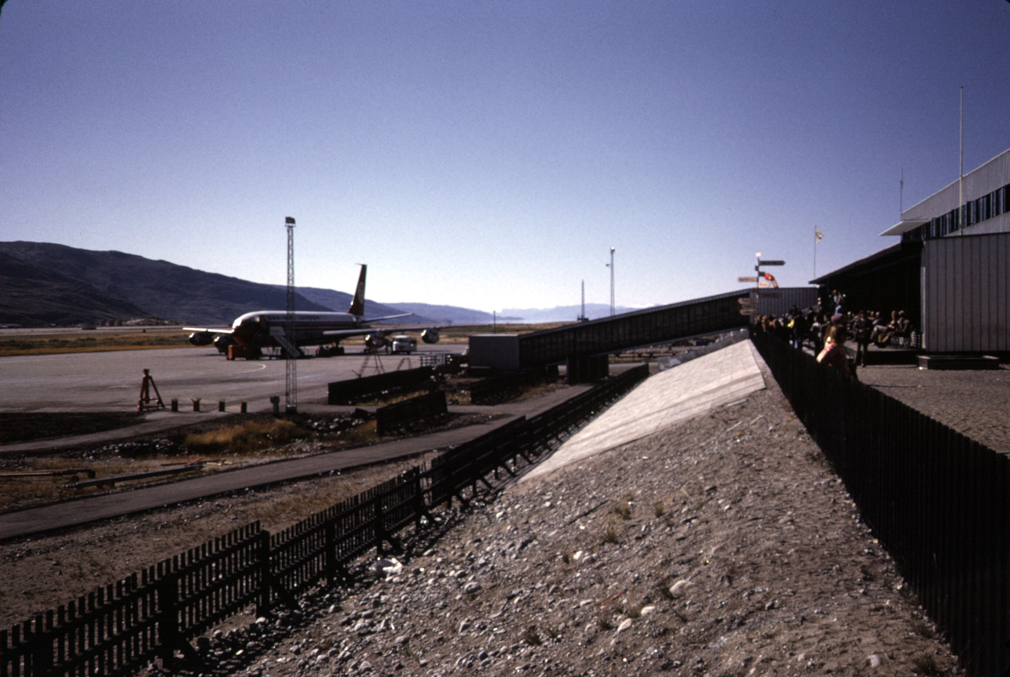 Dan-Air 707 stops to refuel at Sondrestrom Air Base, Greenland, in August 1974, on it's way from London-Gatwick to Vancouver.